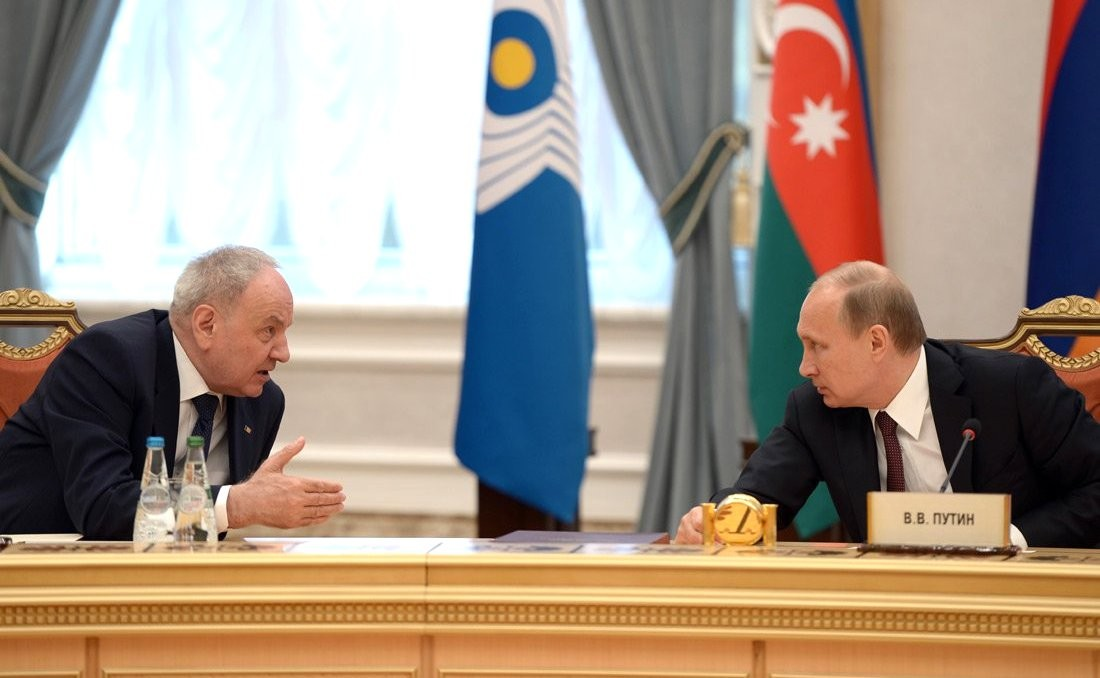 Summit of Heads of State of the Commonwealth of Independent States. With President of Moldova Nicolae Timofti.